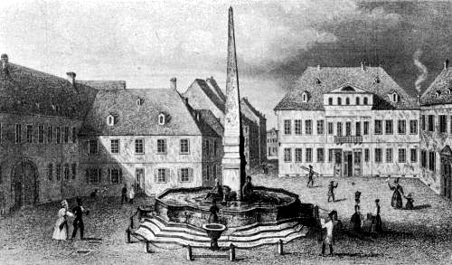 Mainz, Neubrunnenplatz im Bleichenviertel, um 1845